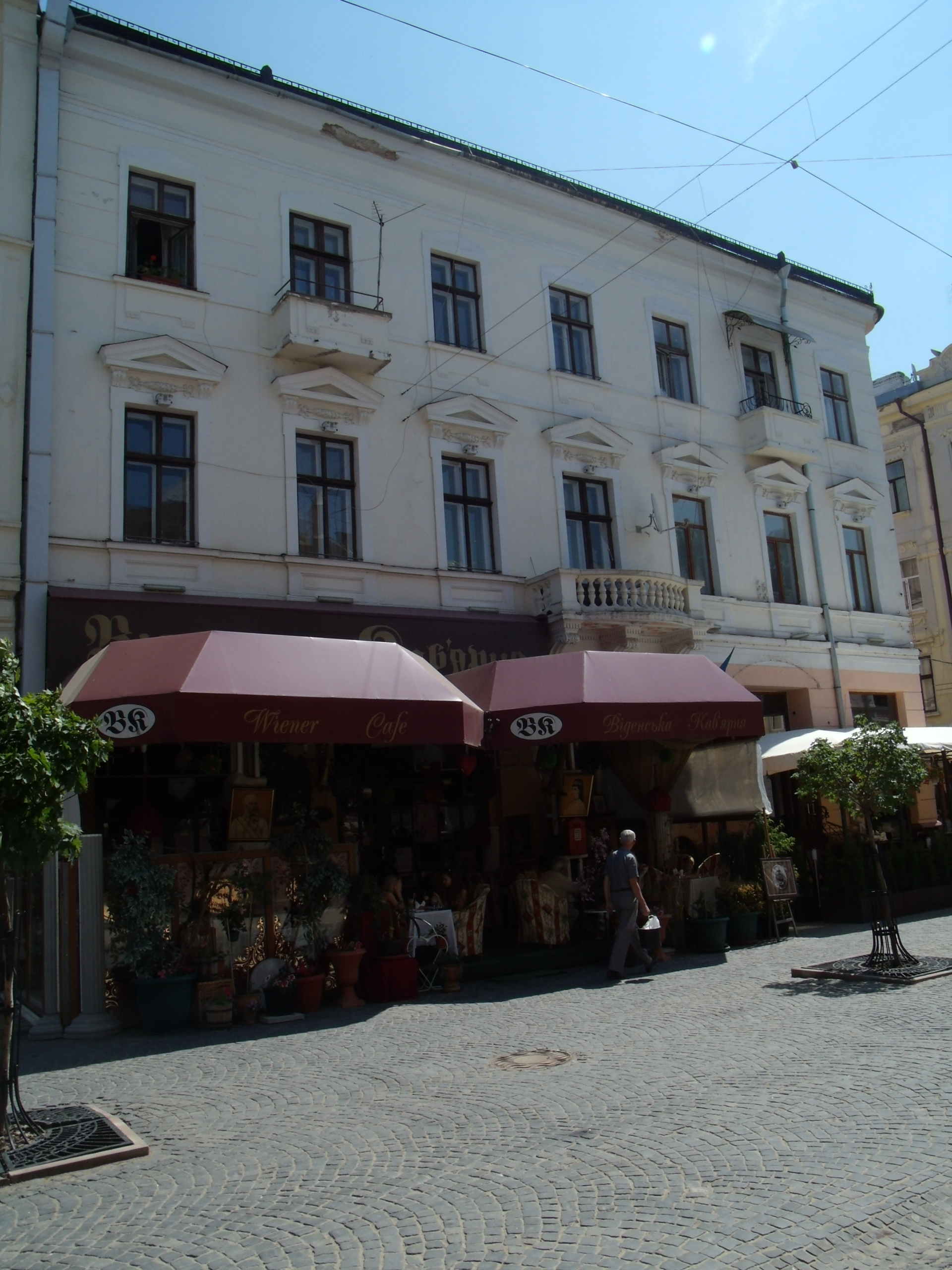 Chernivtsi, Kobylianska house 49